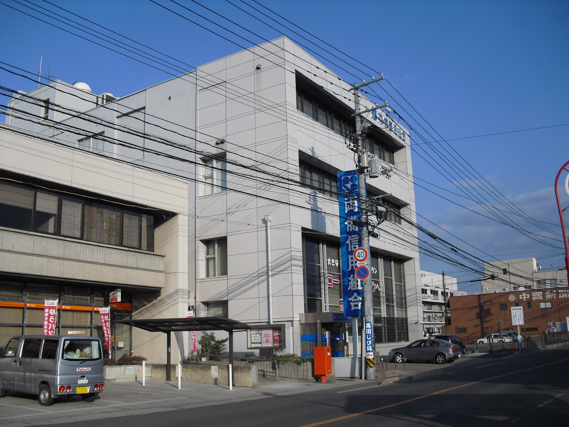 Ryobi shinyokumiai